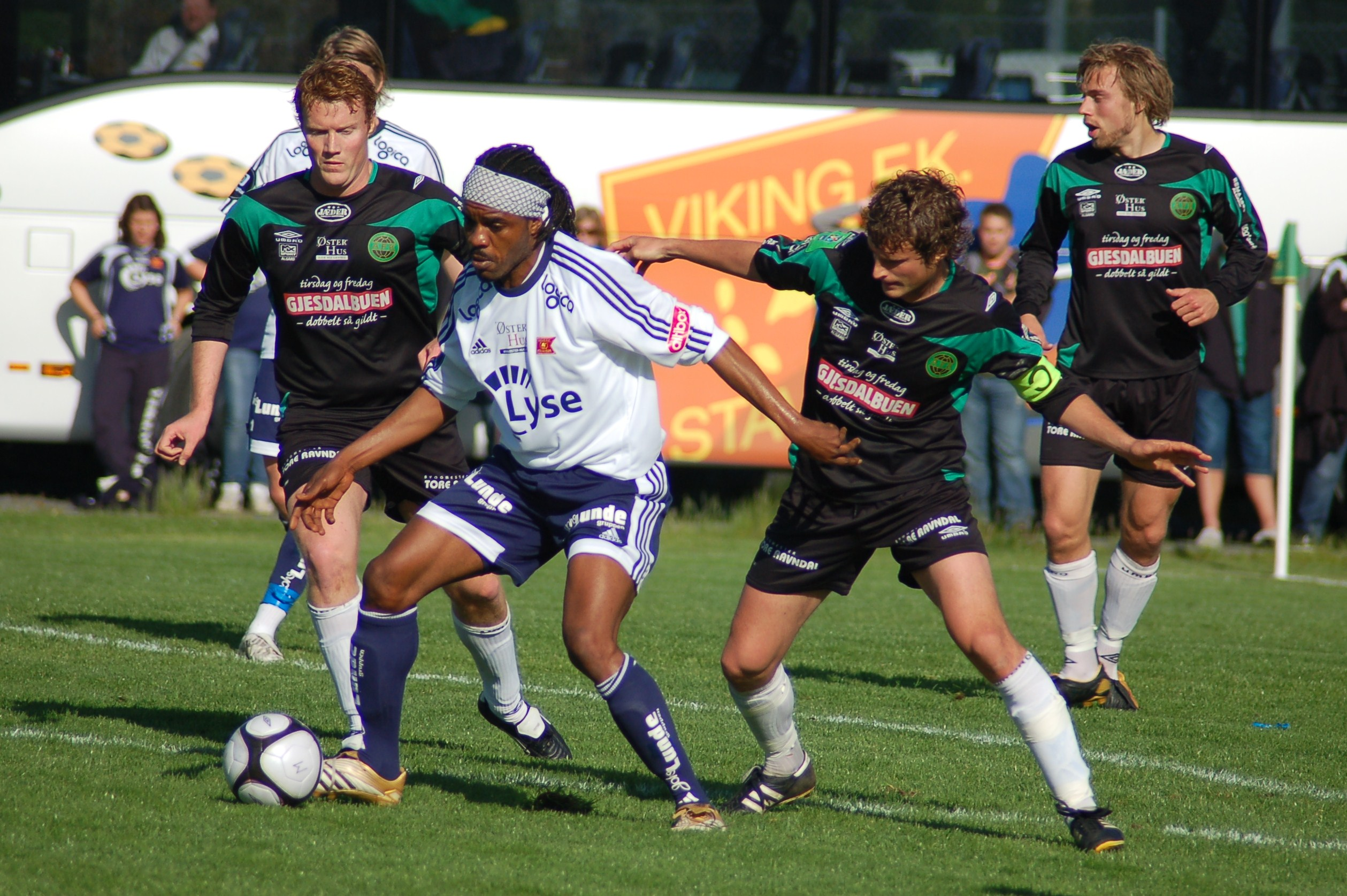 Peter Ijeh (Viking), Øystein Rugland, Robert Tveit and Henrik Karlsen (Ålgård FK) in the 2nd round of Norgesmesterskapet (the norwegian cup) May 28th 2009.